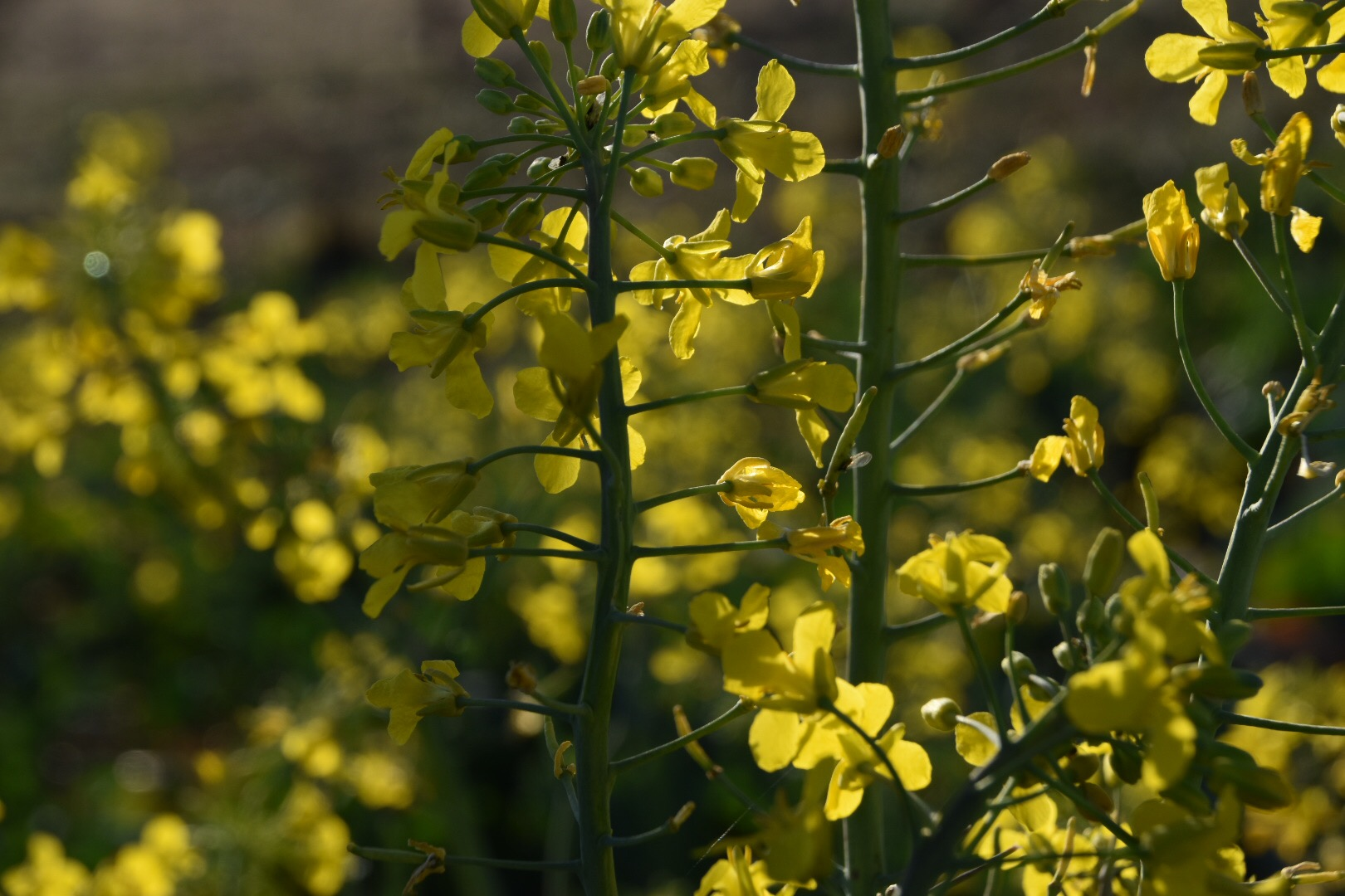 Canola in Flower